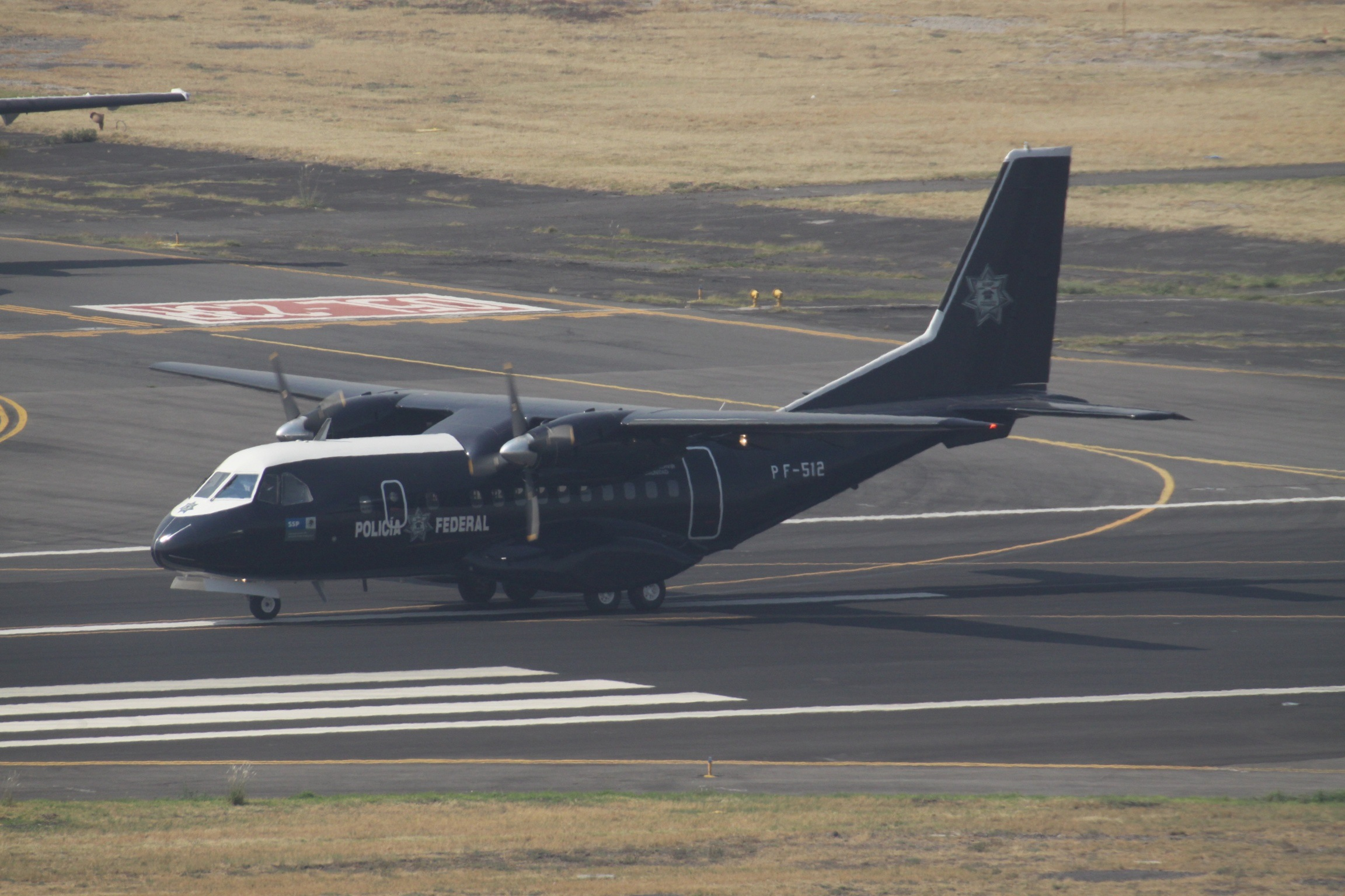 At Mexico City International Airport